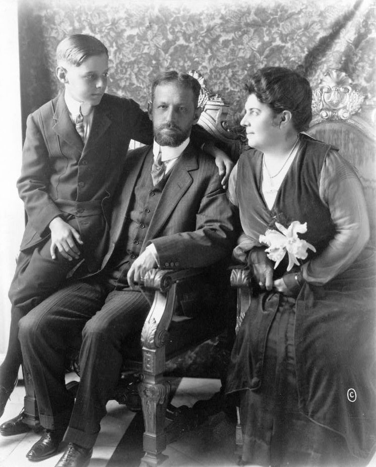 President Mario Menocal, of Cuba, full-length portrait, seated, facing front, with his wife and son